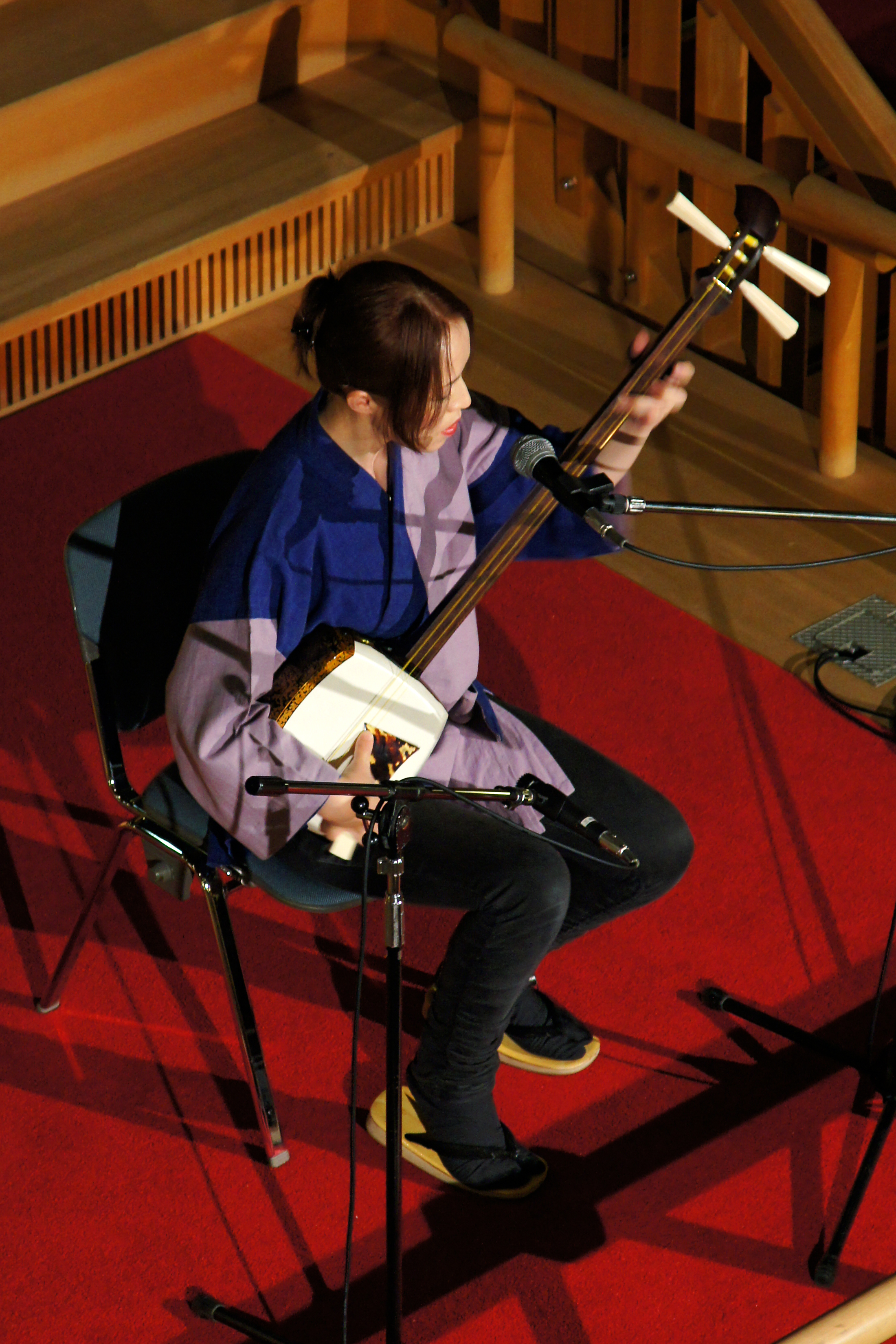 A Tsugaru-jamisen recital at Hotel Kaisenkaku in Asamushi Onsen, Aomori, Aomori prefecture, Japan.